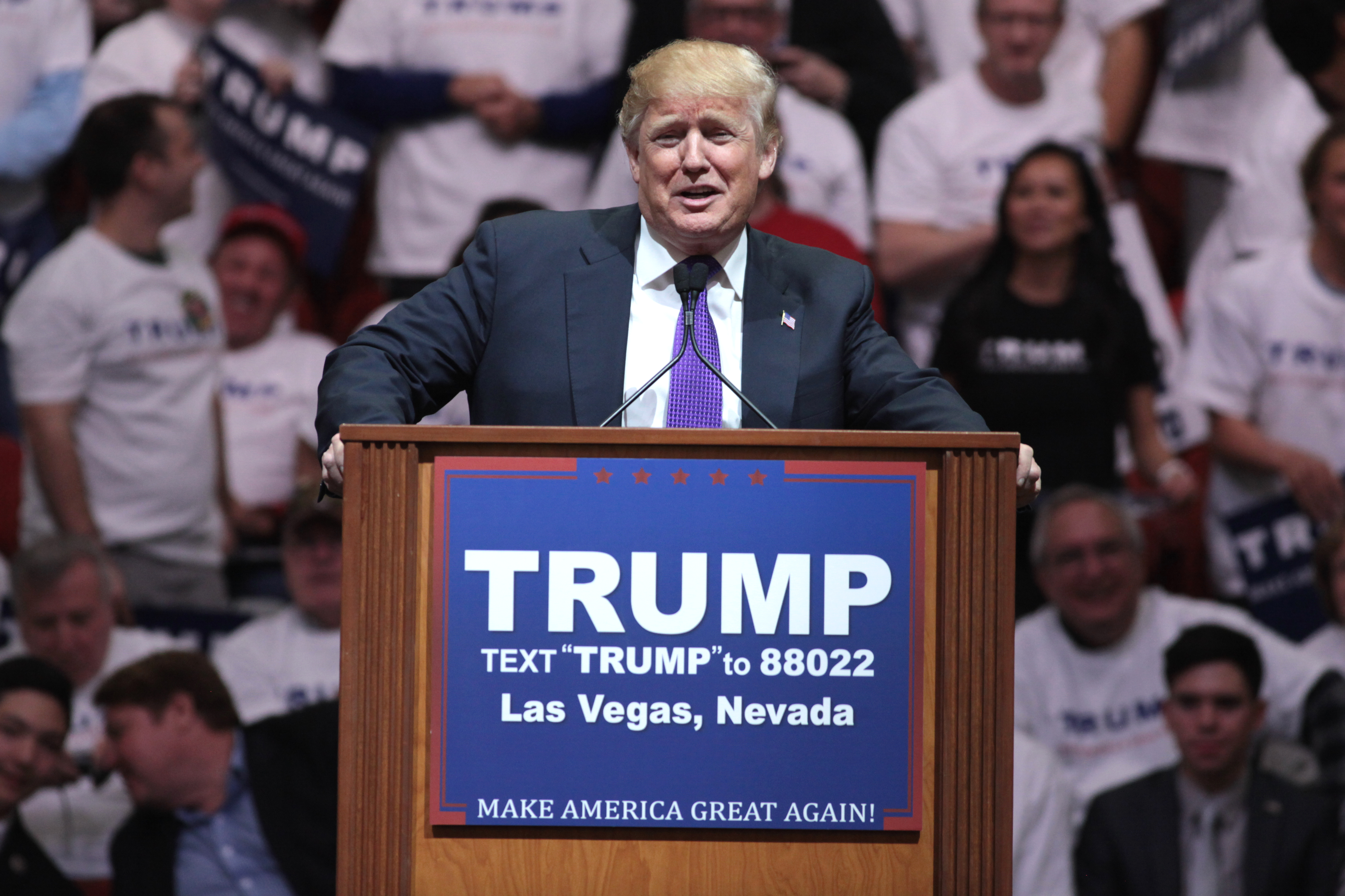 Donald Trump speaking with supporters at a campaign rally at the South Point Arena in Las Vegas, Nevada.